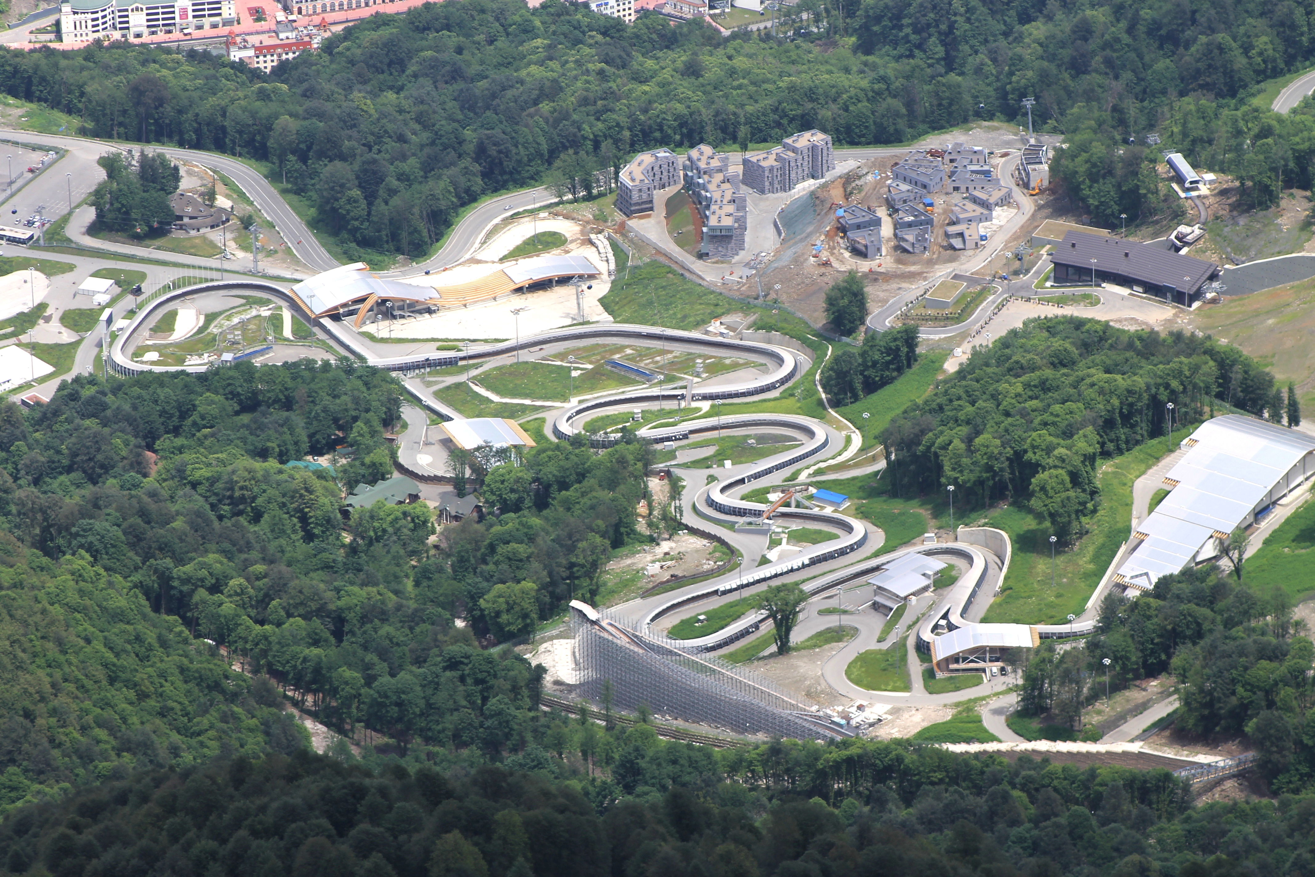 Sliding Center Sanki in Krasnaya Polyana. Venue of competitions in bobsled, luge and skeleton at the 2014 Winter Olympics in Sochi. View from peak top Black pyramid